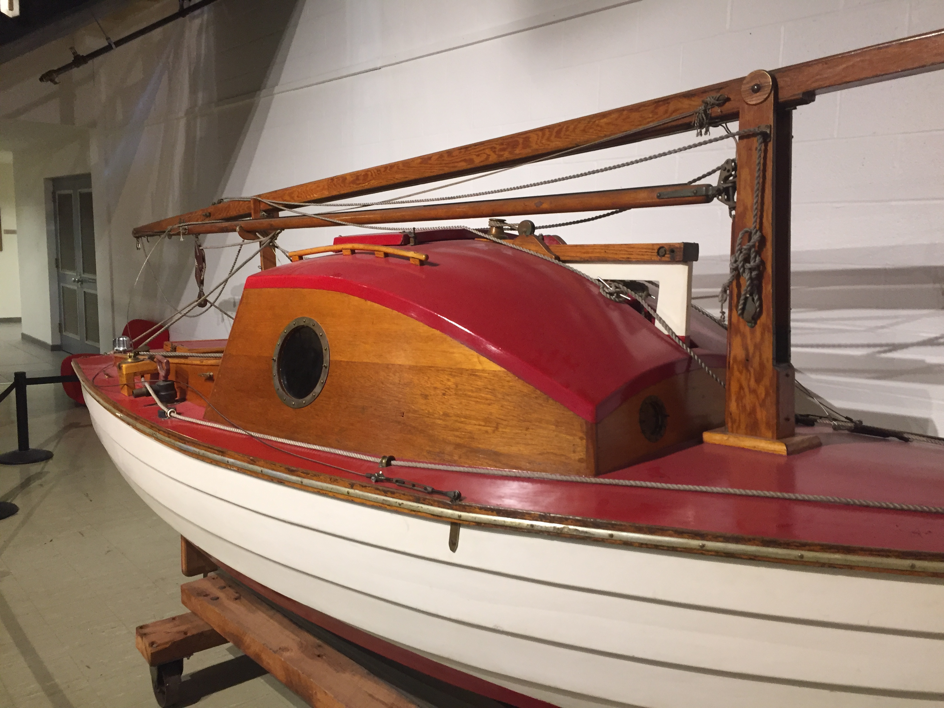 Photograph of Tinkerbelle in the Western Reserve Historical Society Museum